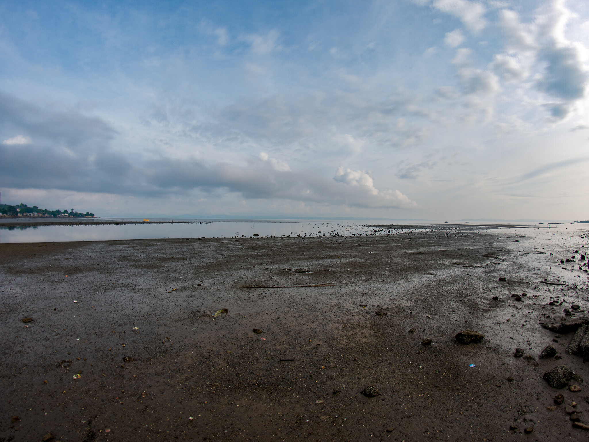 Lamon Bay during low tide as viewed from the Gumaca Heritage District by the mouth of the Pipisik River. The body of water in the immediate for ground is the Pipisik River. Center left and right are some of the coastal areas of Gumaca Brgy. Rosario and Brgy. Camuhaguin respectively. In background is the island of Alabat (left to center) and Lopez (right).